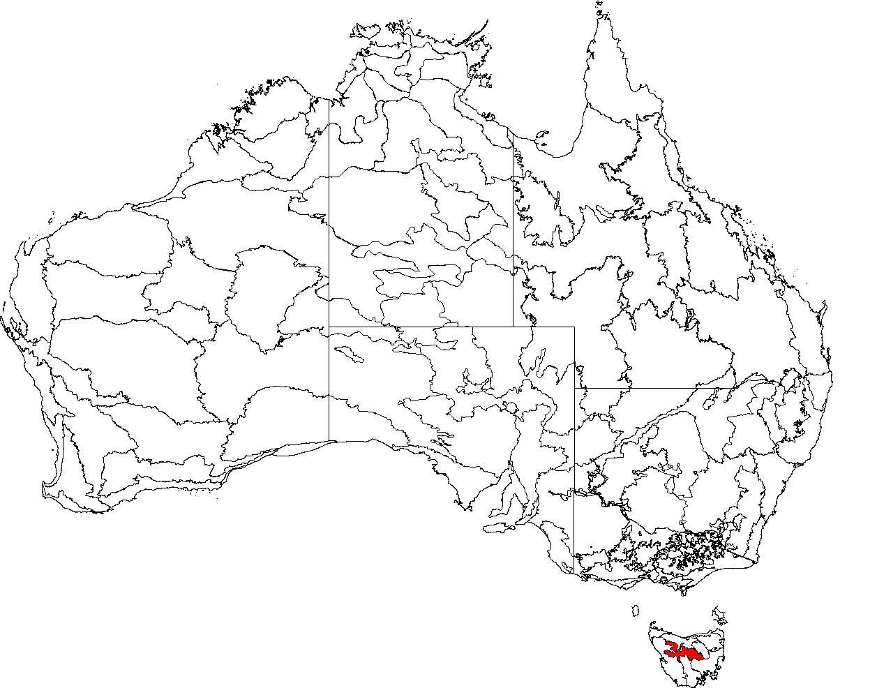 This is a map of the Interim Biogeographic Regionalisation of Australia (IBRA), with state boundaries overlaid. The Tasmanian Central Highlands region is shown in red.